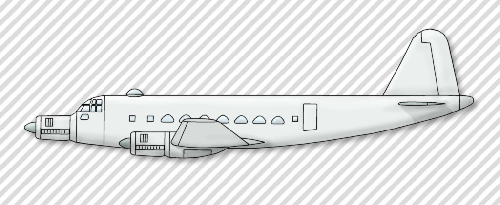 sketch of a Junkers Ju 252